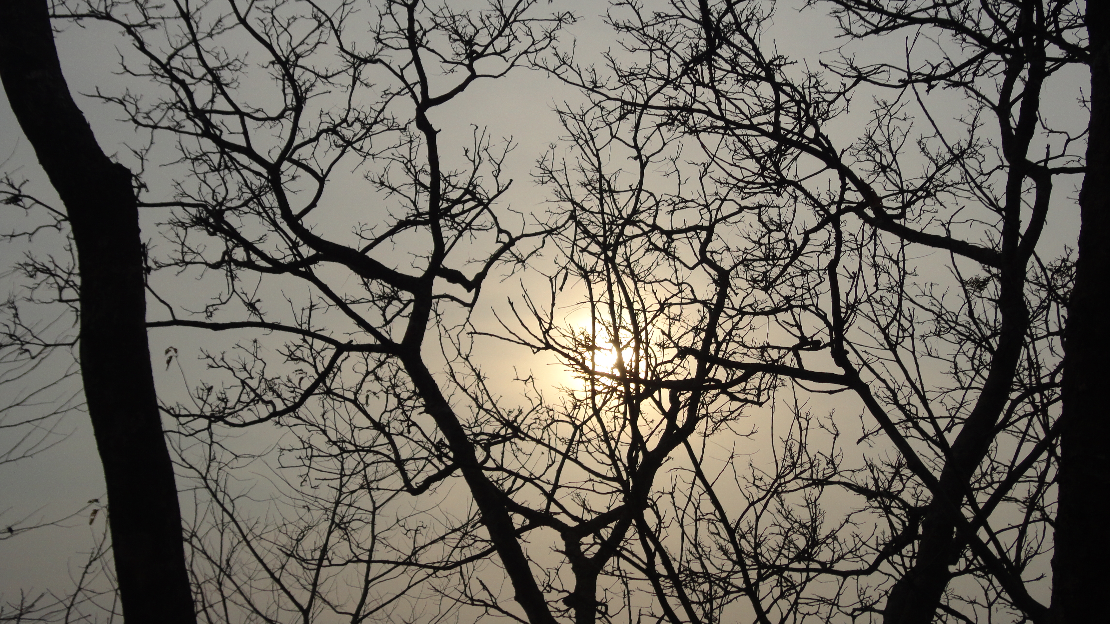 Scene take from Uzhavoor